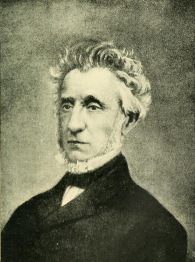 John W. Brown, Congressman from New York